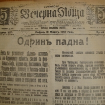 Vecherna Poshta 1913-03-15